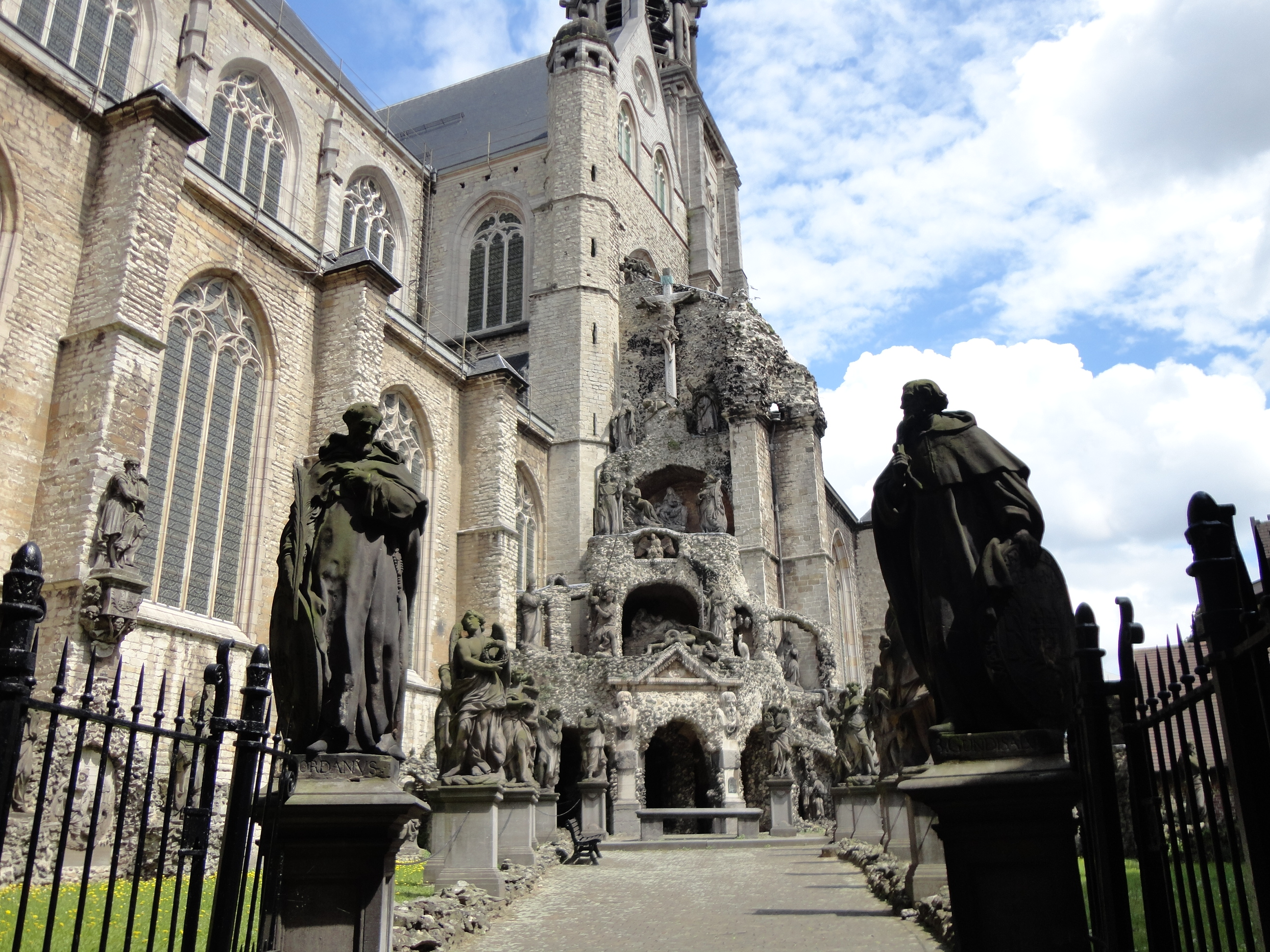 Some pictures taken in Antwerp, Belgium, July 2012